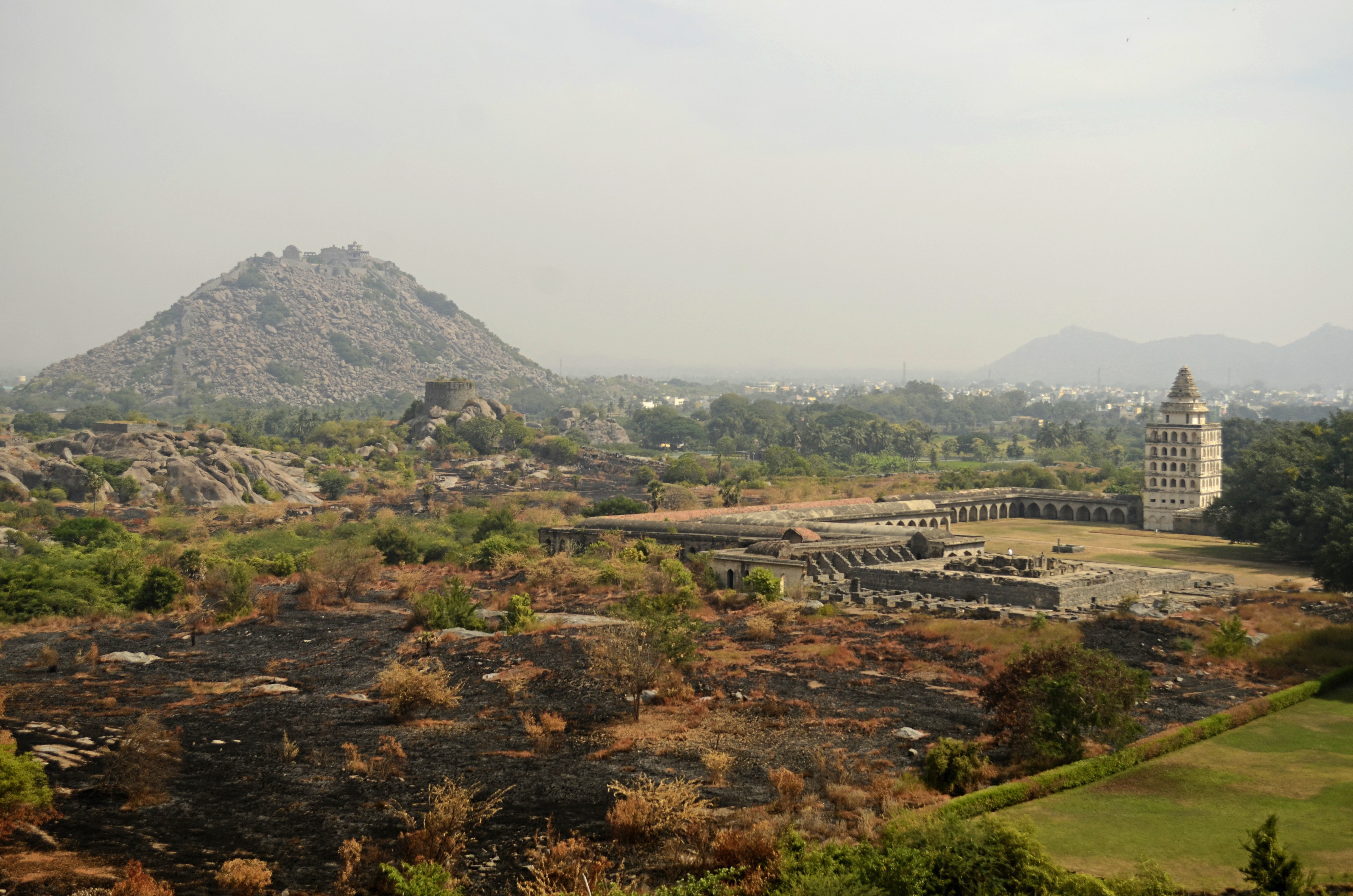 A view from Gingee Fort1